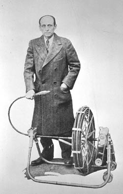 Description: Sam Blanc and an early Roto-Rooter machine Copyright owner: Roto-Rooter Services Company